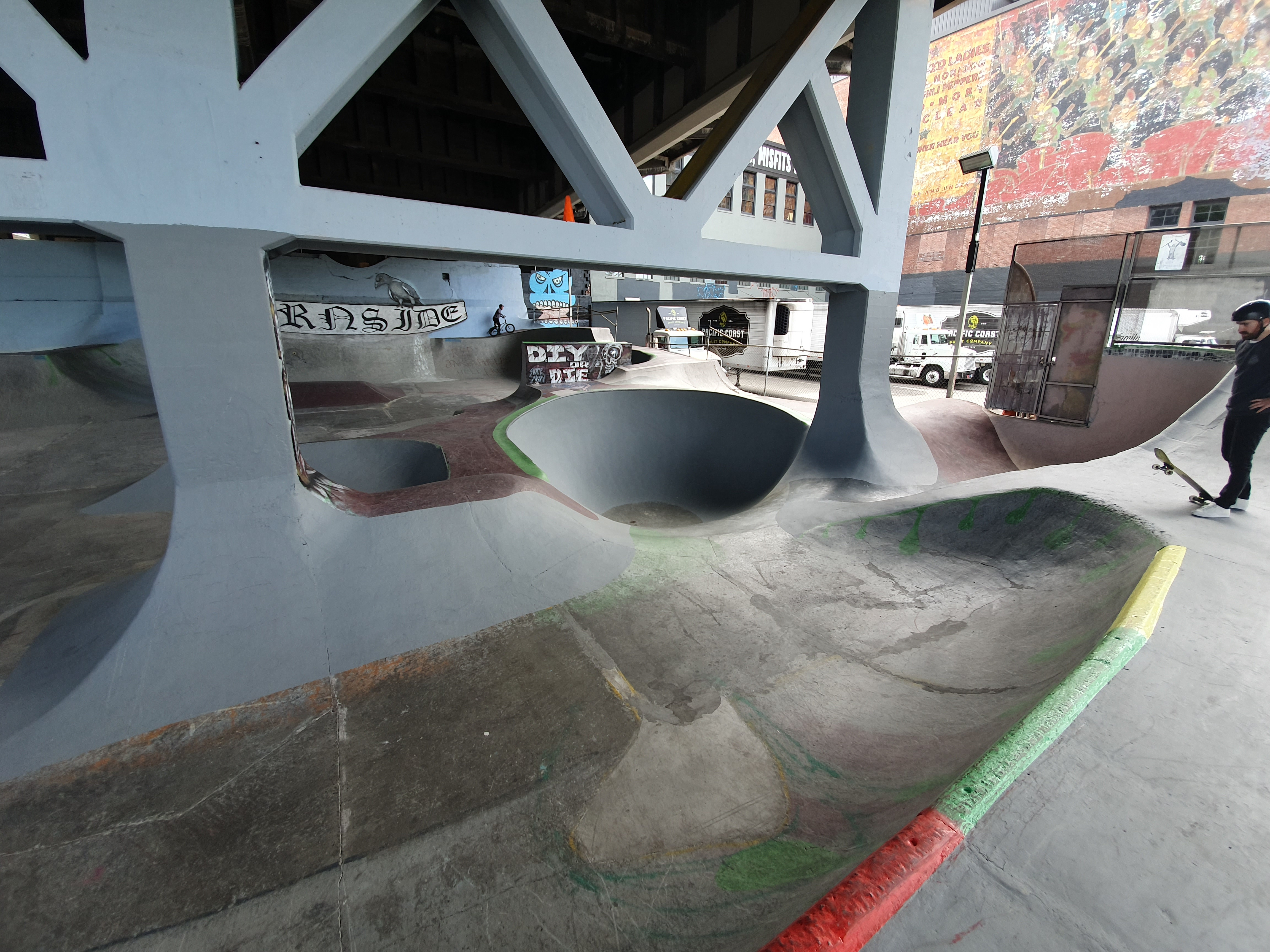 Photograph of the Burnside Skatepark as of May 18, 2019. Taken from the south wall